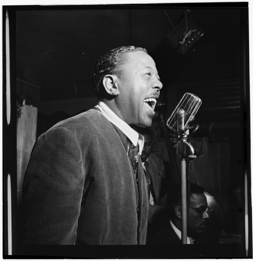 Roy Eldridge, Spotlite (Club), New York